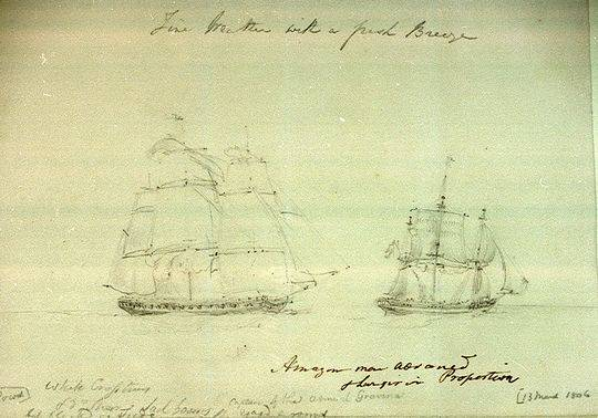 The frigate HMS Amazon (1799) pursuing an unnamed French ship, possibly the Belle Poule.